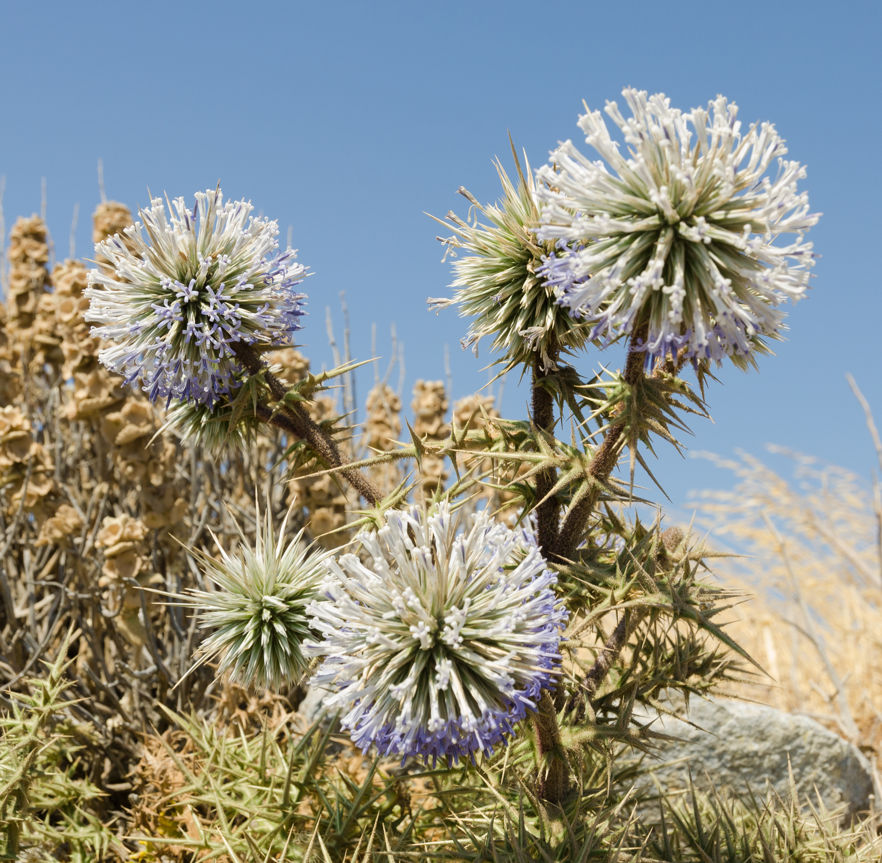 Echinops spinosissimus, subspecies spinosissimus in Ancient Thera, Santorini, Greece.